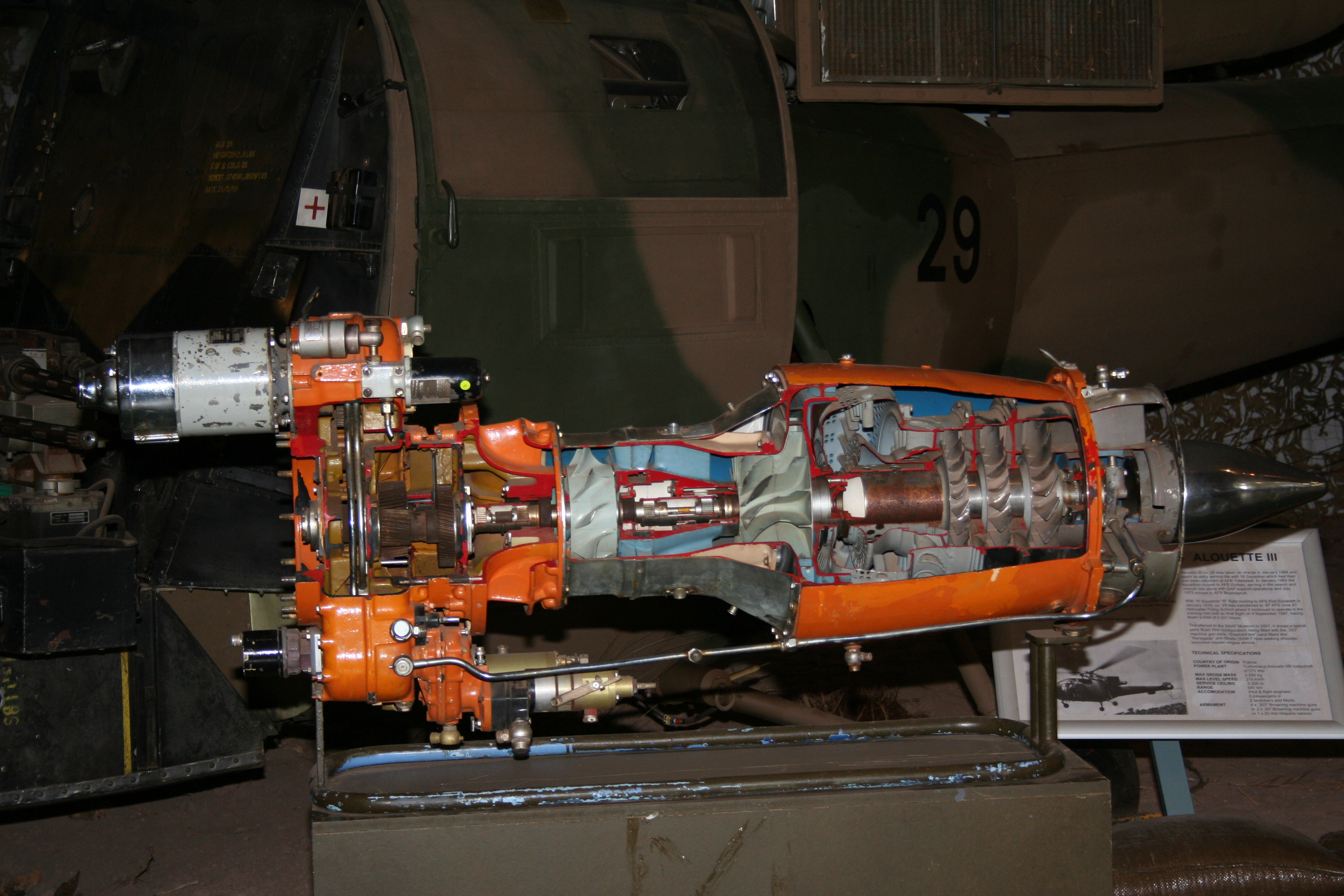 Turbomeca Artouste IIIB turboshaft engine, used on the Aérospatiale Alouette III On display at the South African Air Force Museum, Swartkop